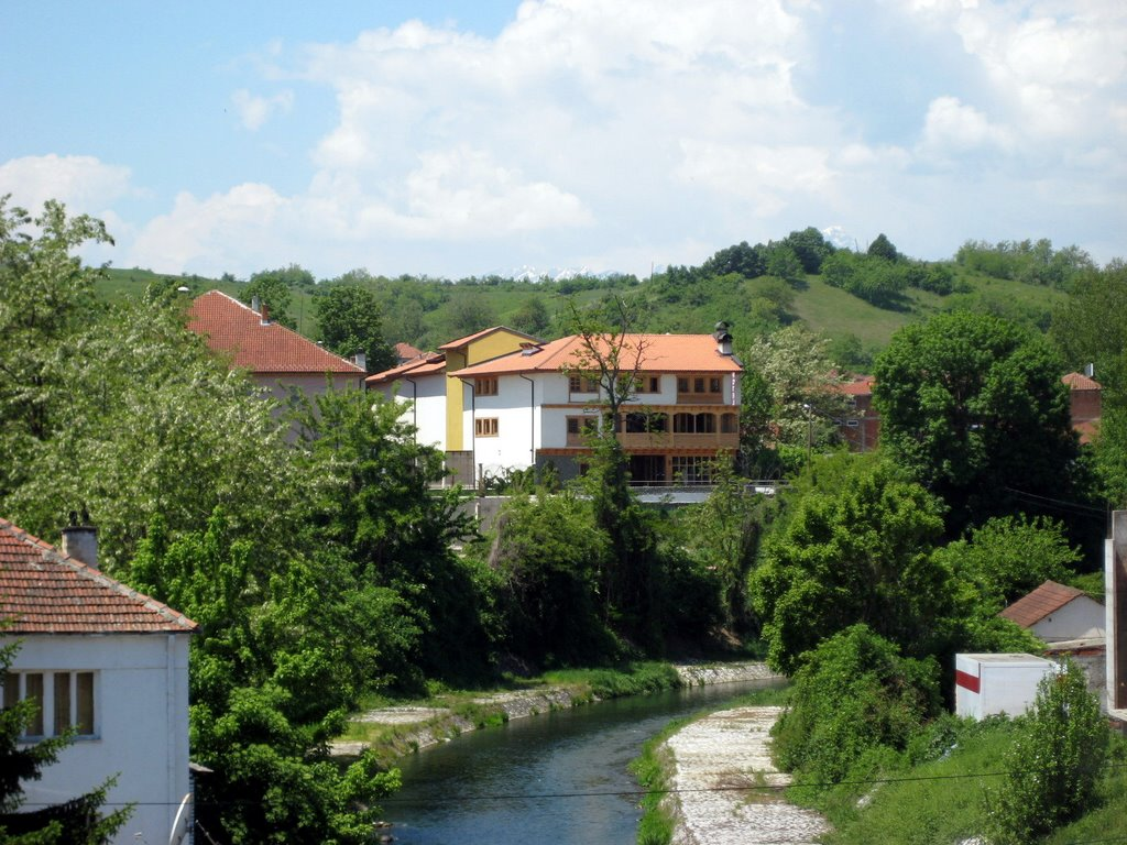 Photos from Arianit Dobroshi for Wikimedia Commons. Original Filename "arianit/Gjakova/IMG_0009.JPG"